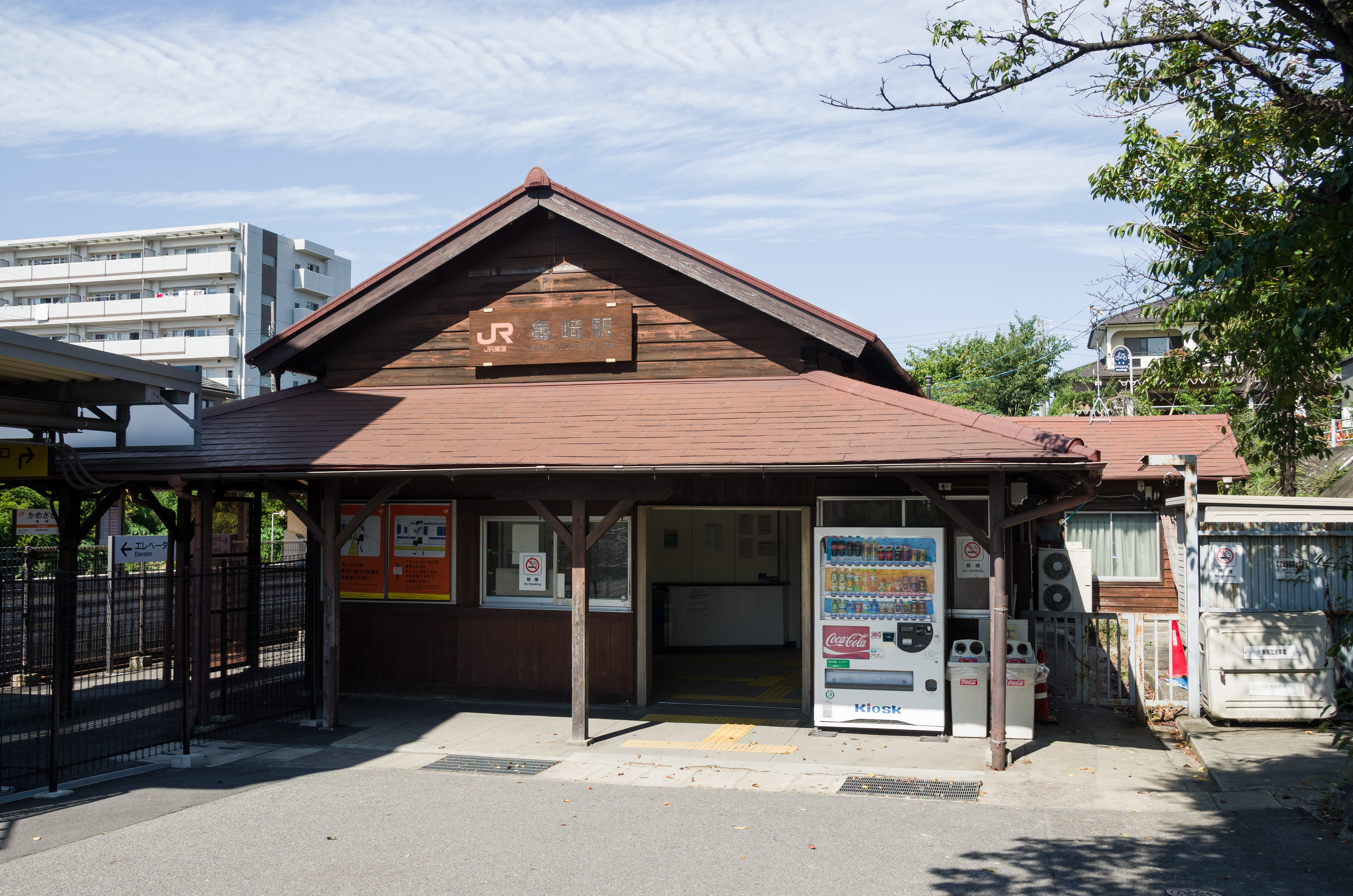 JR Kamezaki Station Building in Handa, Aichi, Japan.